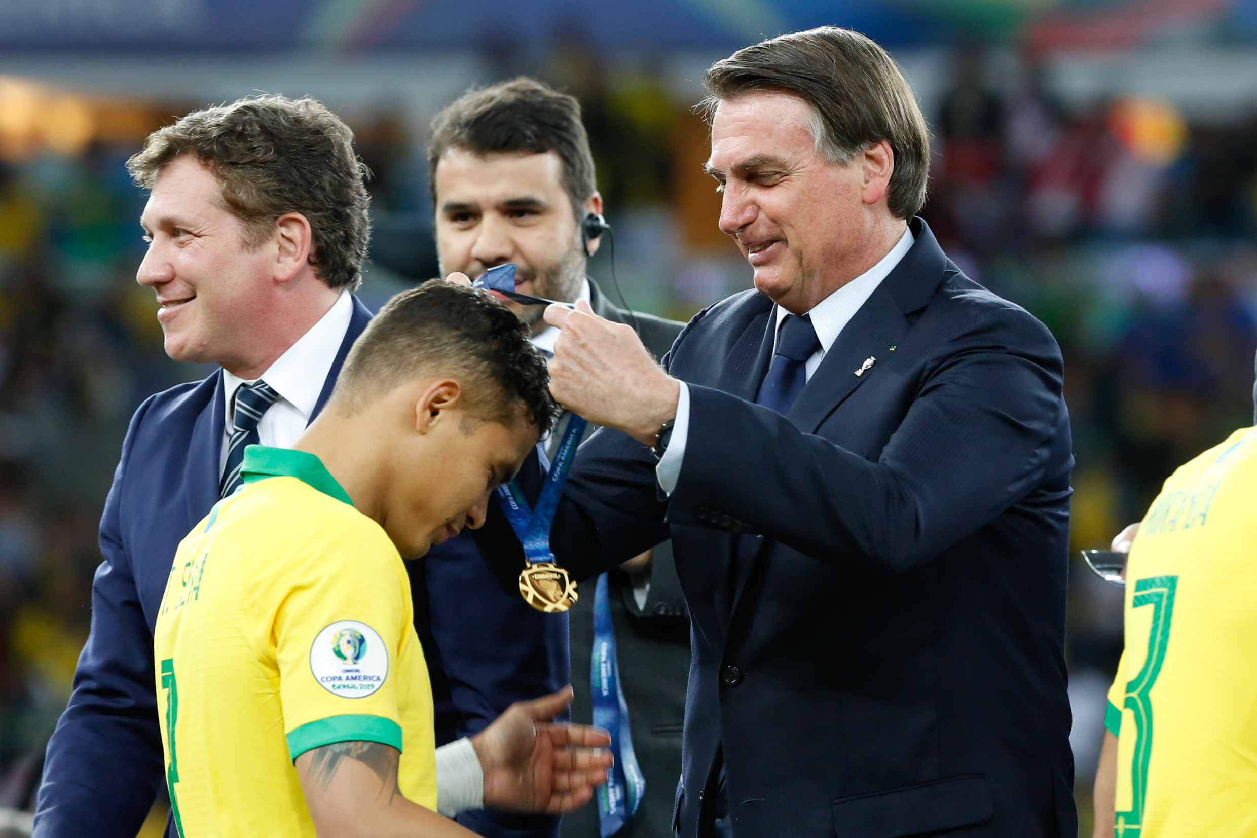 (Rio de Janeiro - RJ, 07/07/2019) Presidente da República, Jair Bolsonaro, e o Presidente da Confederação Sul-Americana de Futebol (CONMEBOL), Alejandro Domínguez, durante entrega da premiação da Copa América 2019. Foto: Carolina Antunes/PR